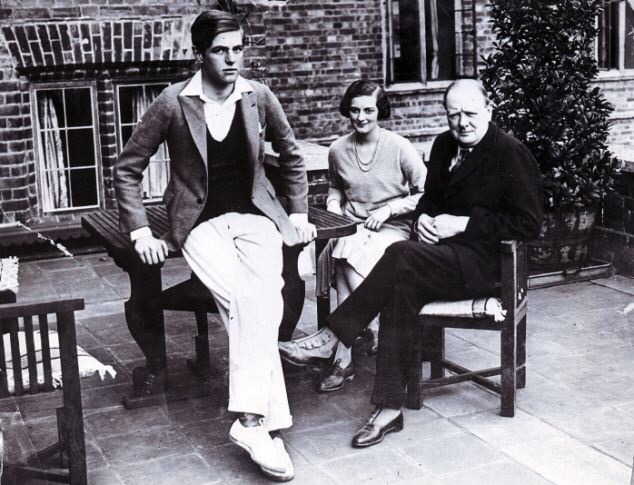 Winston Churchill with children Randolph and Diana in the early Twenties